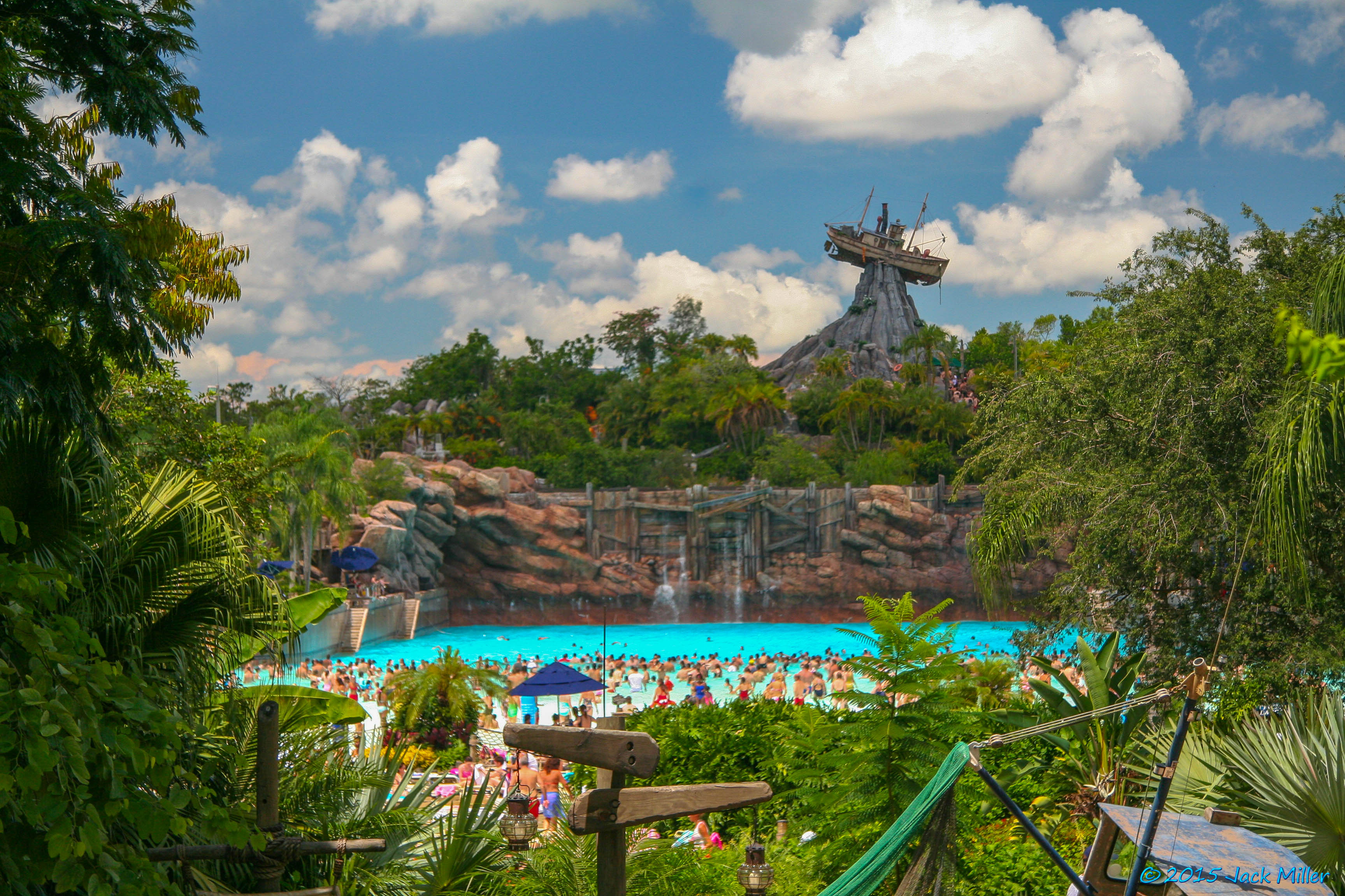 Wave pool at Disney's Typhoon Lagoon